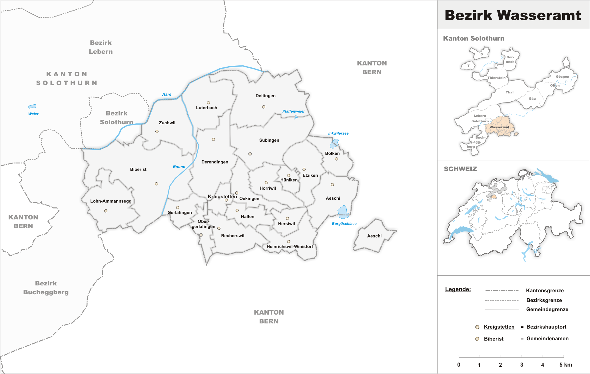 Municipalities in the district of Wasseramt